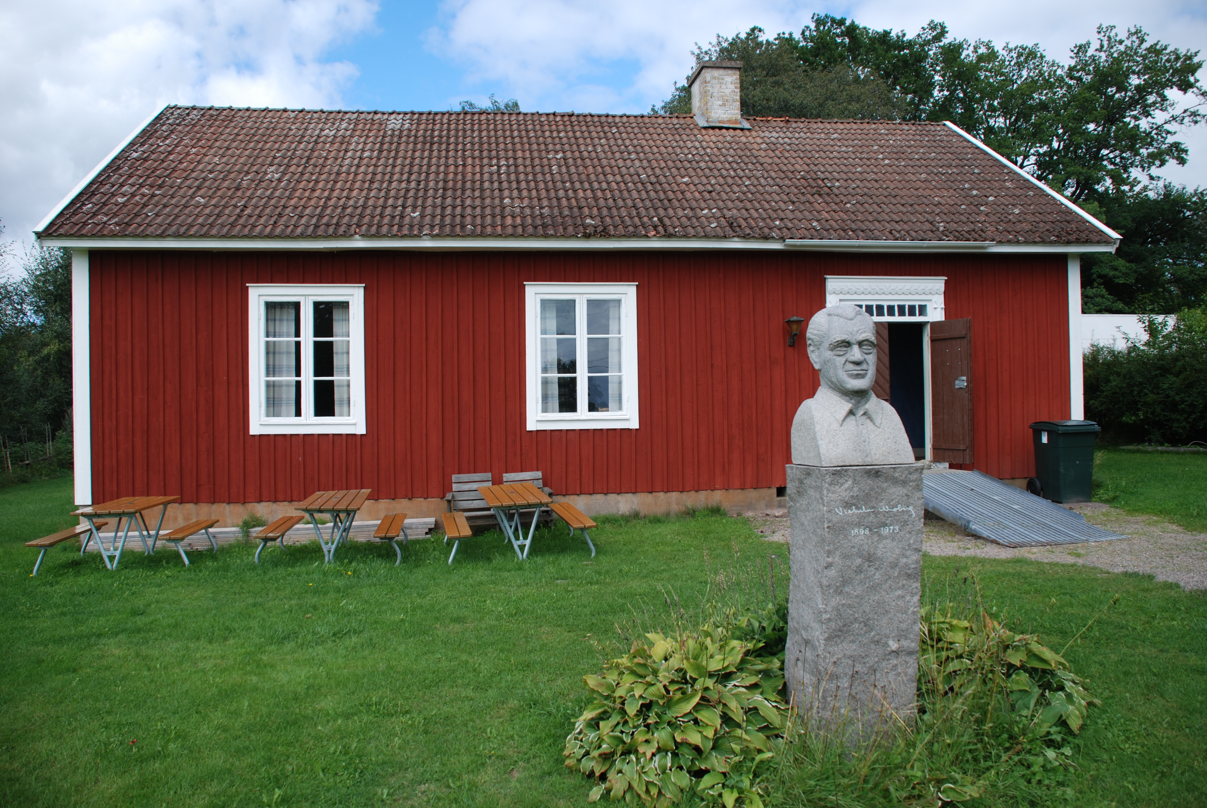 Bust of Vilhelm Moborg in front of his old school